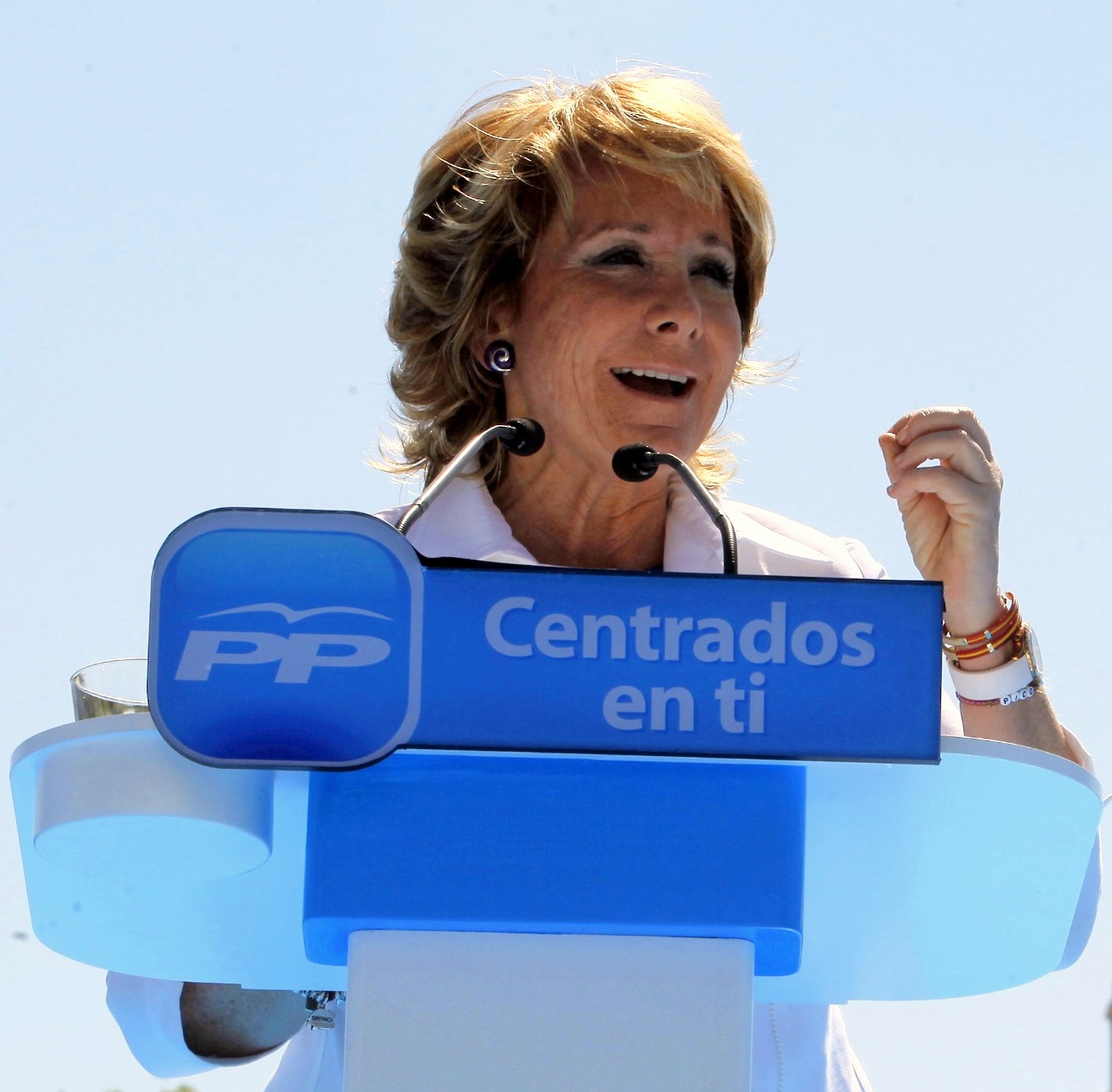 Esperanza Aguirre, Spanish politician.